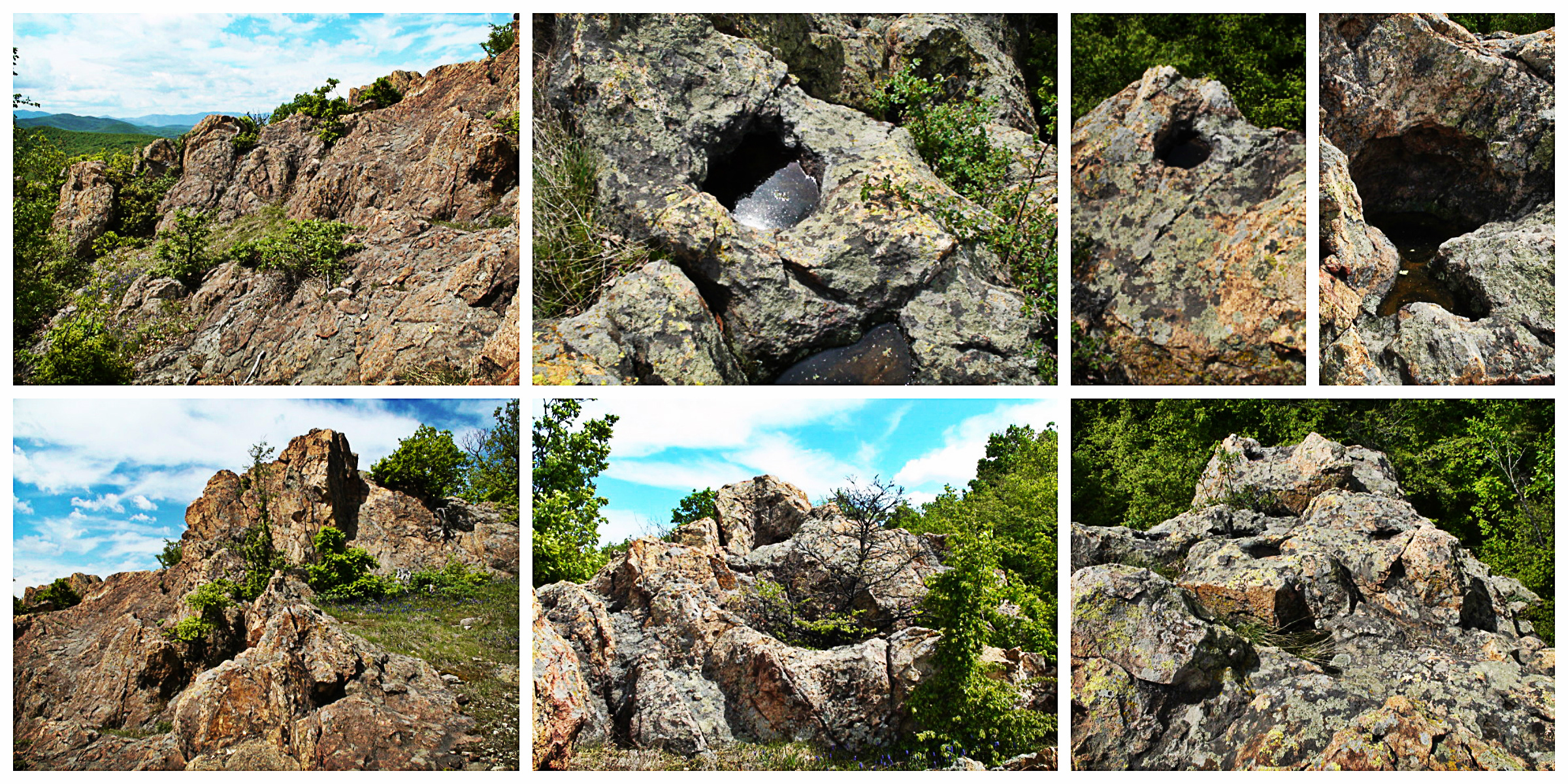 Garvanitza 03 Bryastovo Haskovo BG